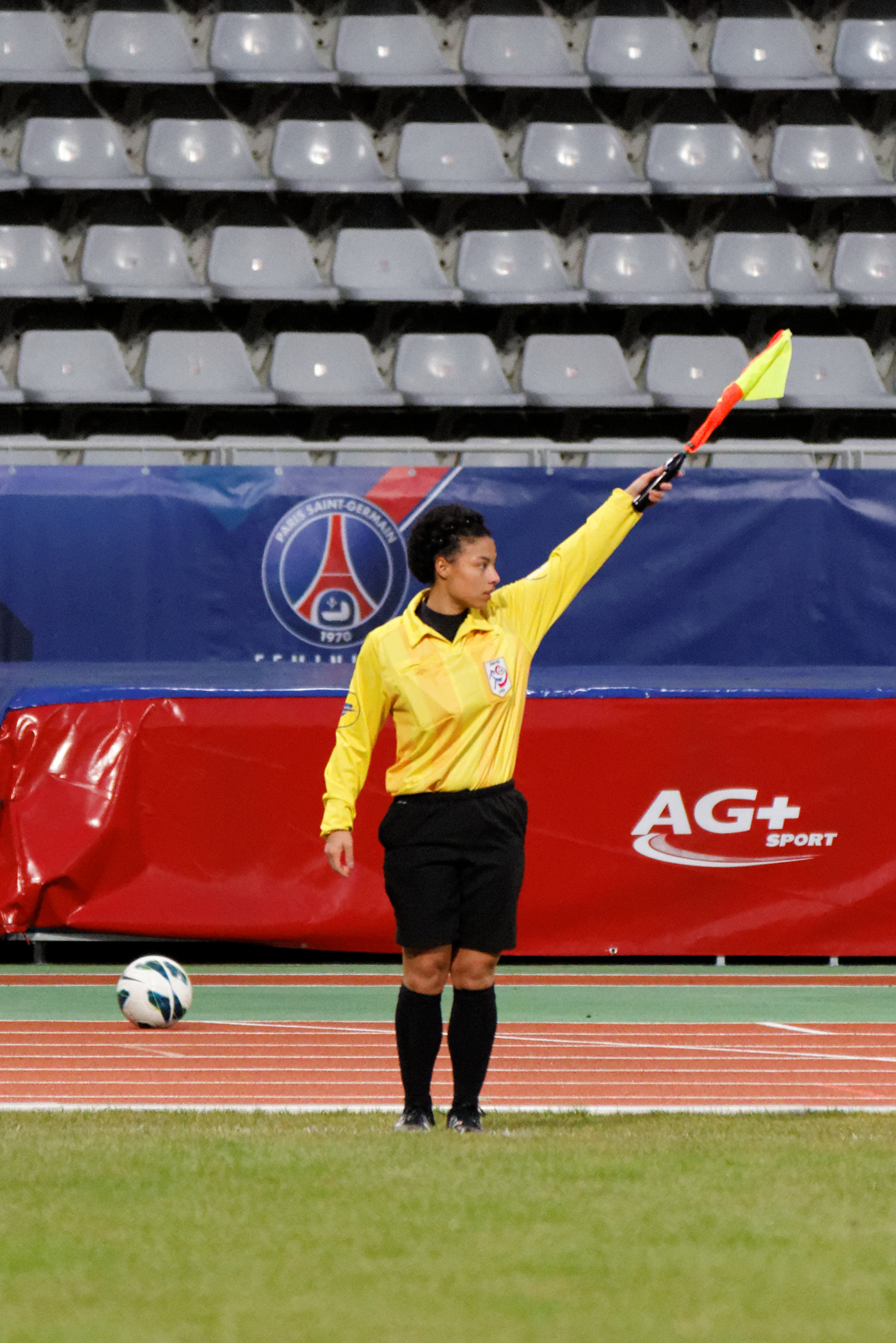 PSG-AS Saint-Étienne, december 16th, 2012.